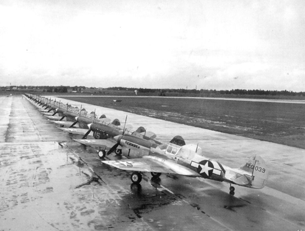 Row of P-40 Warhawks after their arrivial at Spence Army Airfield, Georgia in 1944